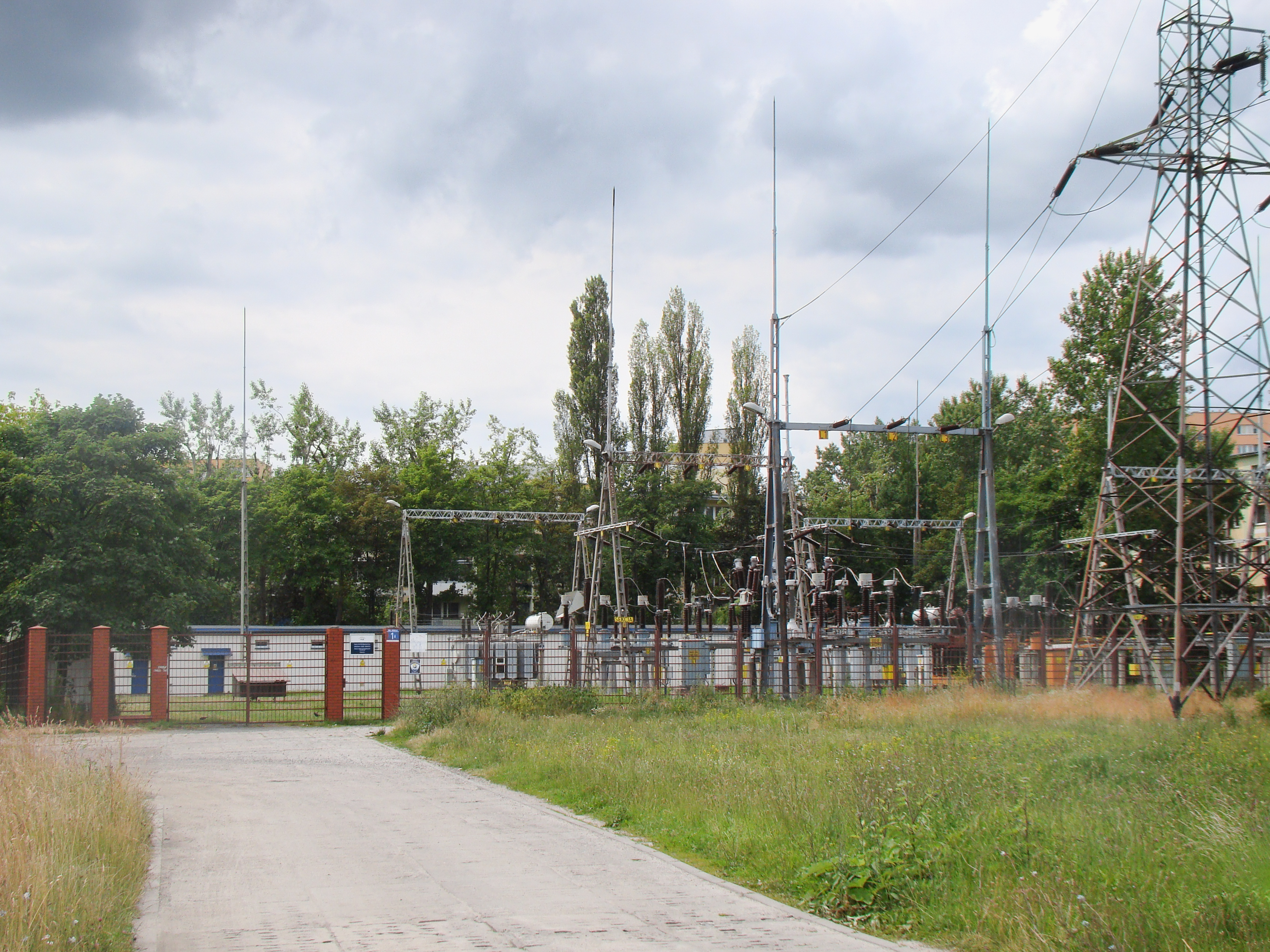 Electrical substation 110/15 kV Łódź-Retkinia